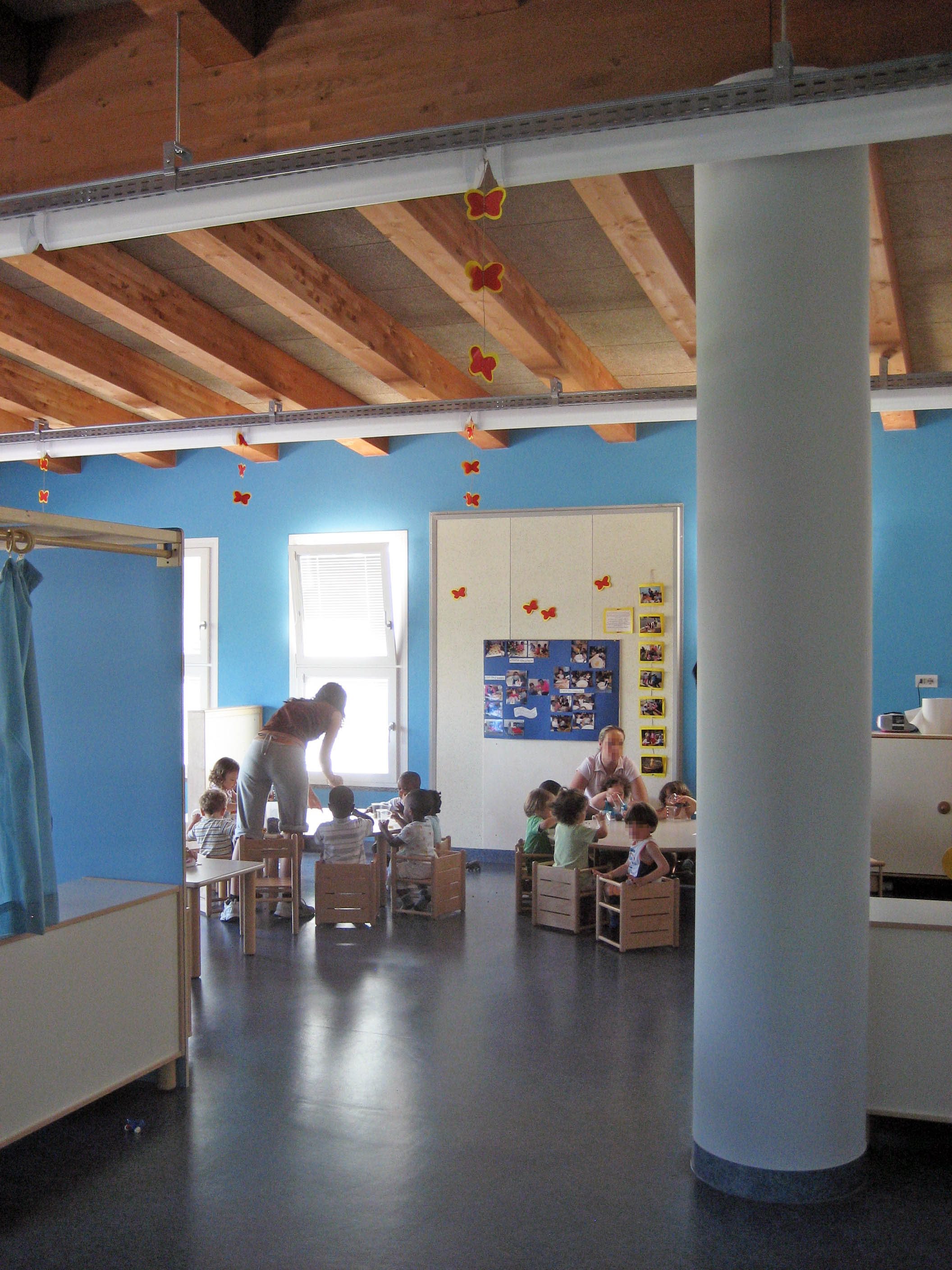 Teachers and children in Fontevivo's nursery school (the blue classroom)